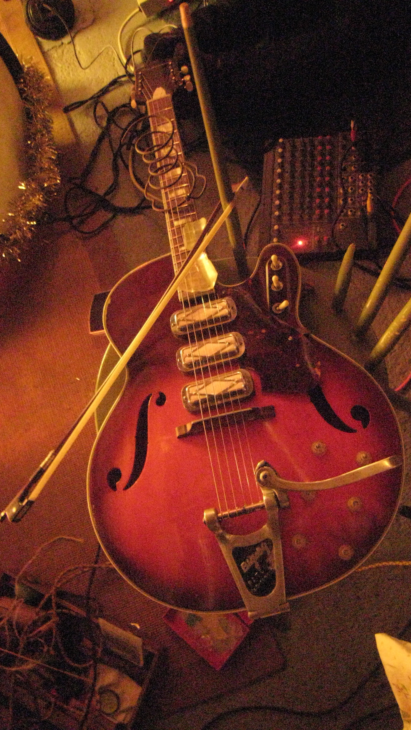 Silvertone 1454 (Harmony H78) hollow-body single cutaway redburst, 3 pickups, bigsby